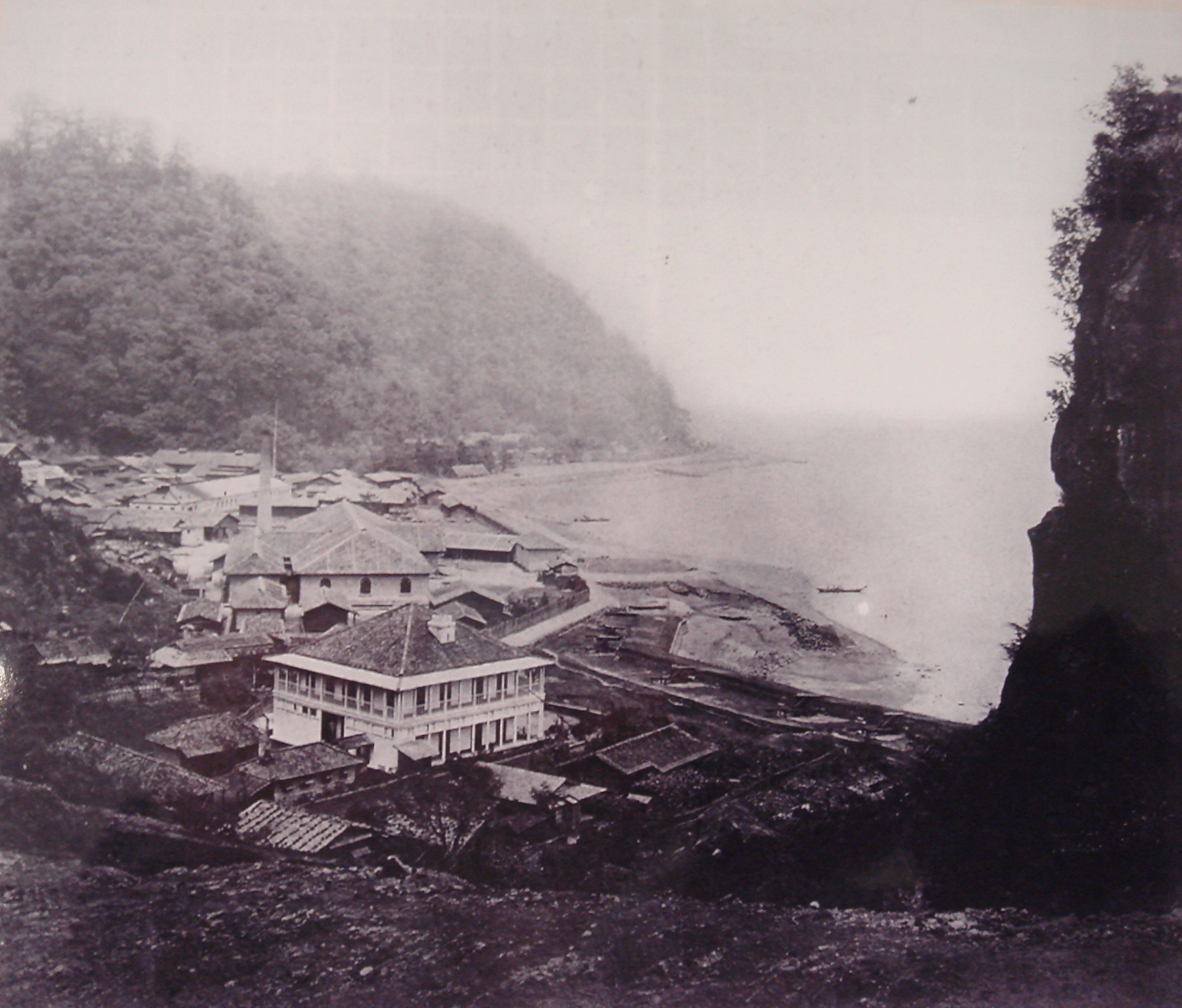 The Shuseikan in Kagoshima. 1872 photograph. Tokyo National Science Museum, personal photograph.